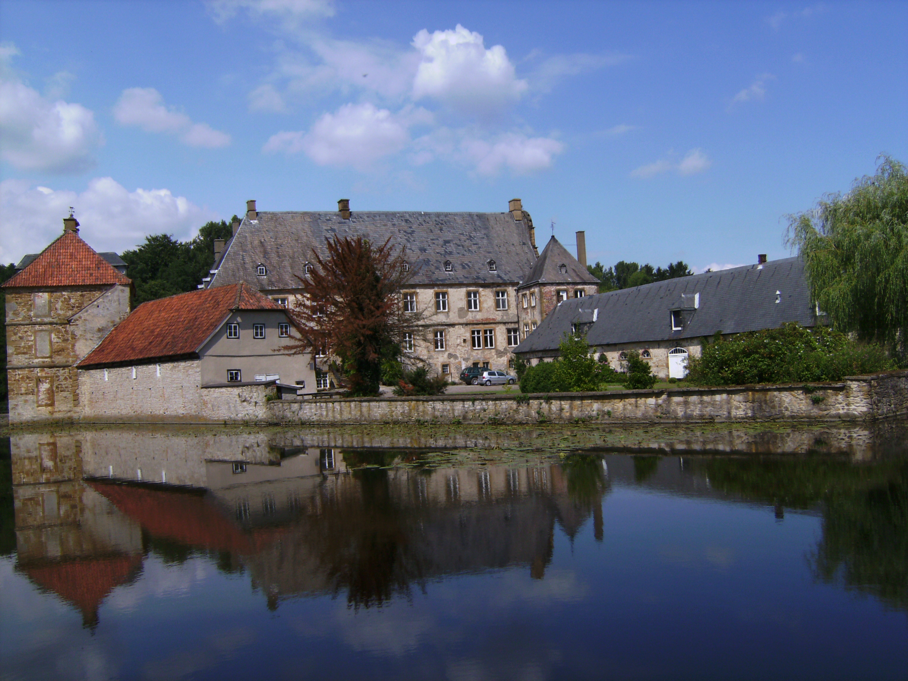 front side moated castle Tatenhausen in Halle (Westfalen)